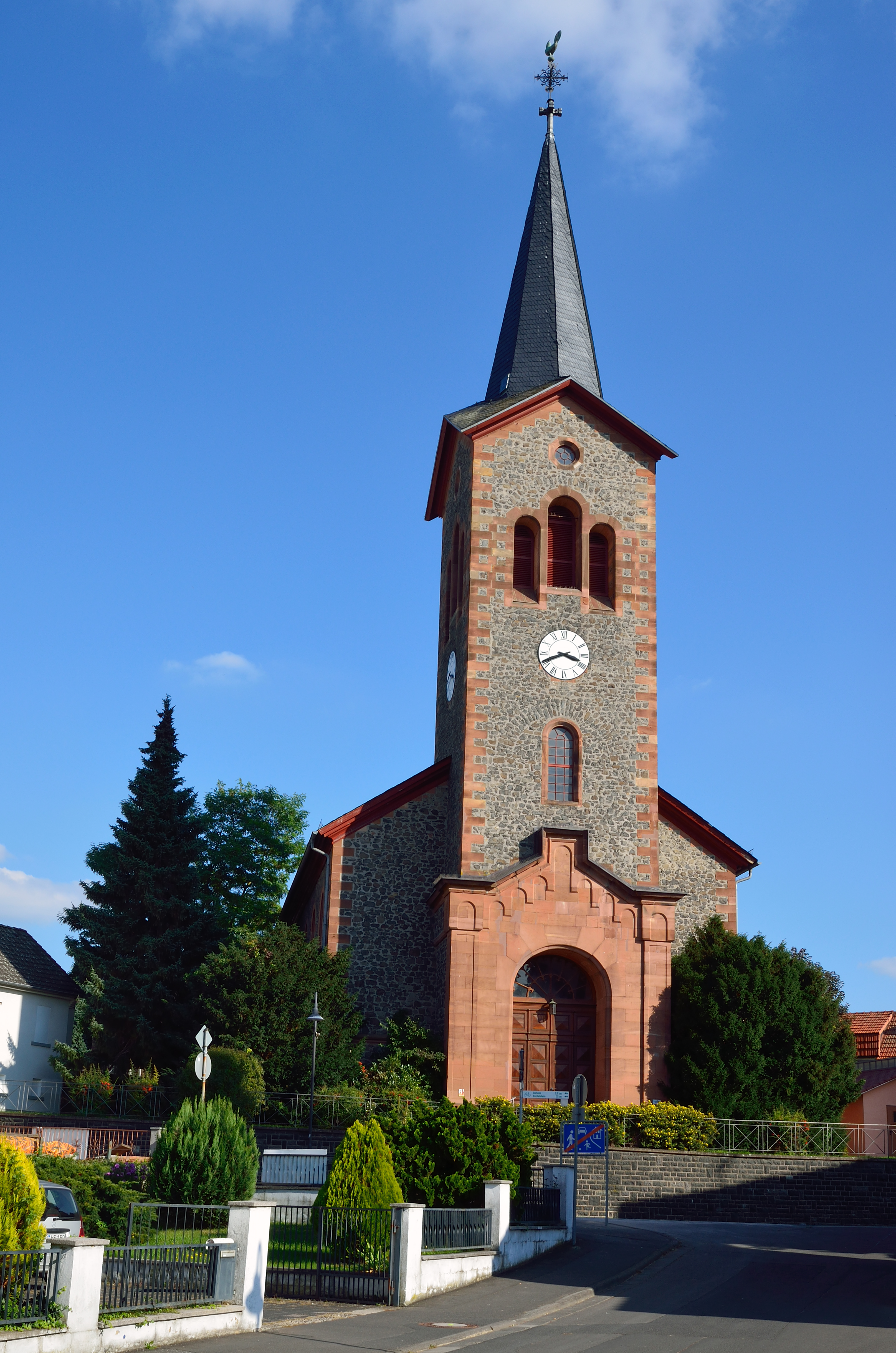 The ev. church in Schwalheim, Bad Nauheim